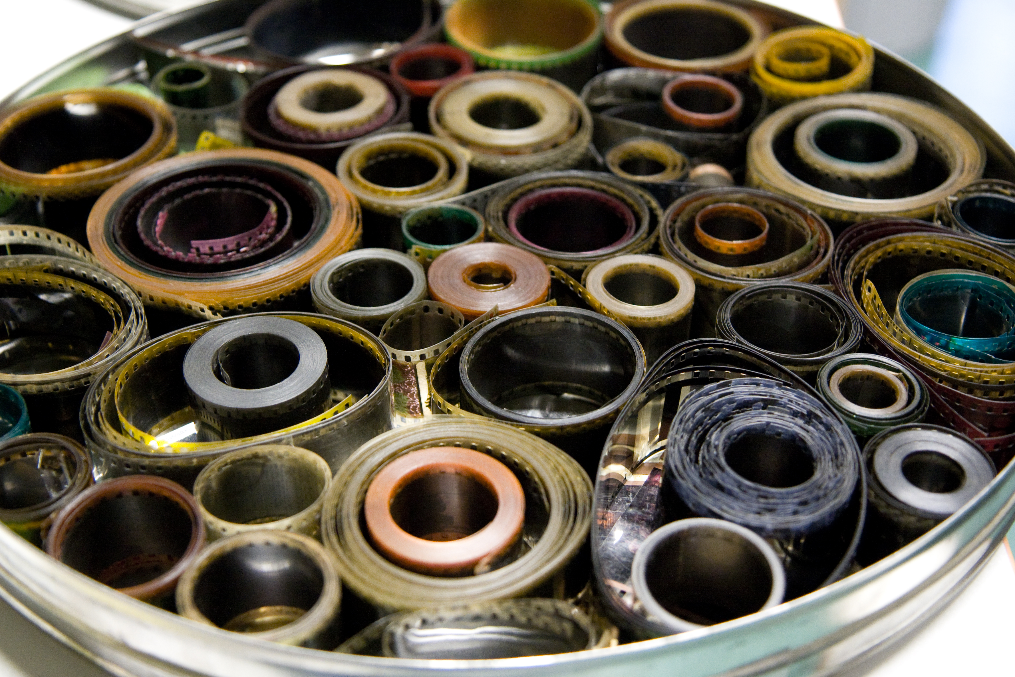 Old celluloid film rolls. EYE Restauratie-atelier.